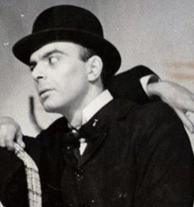 Leal Rey-actor